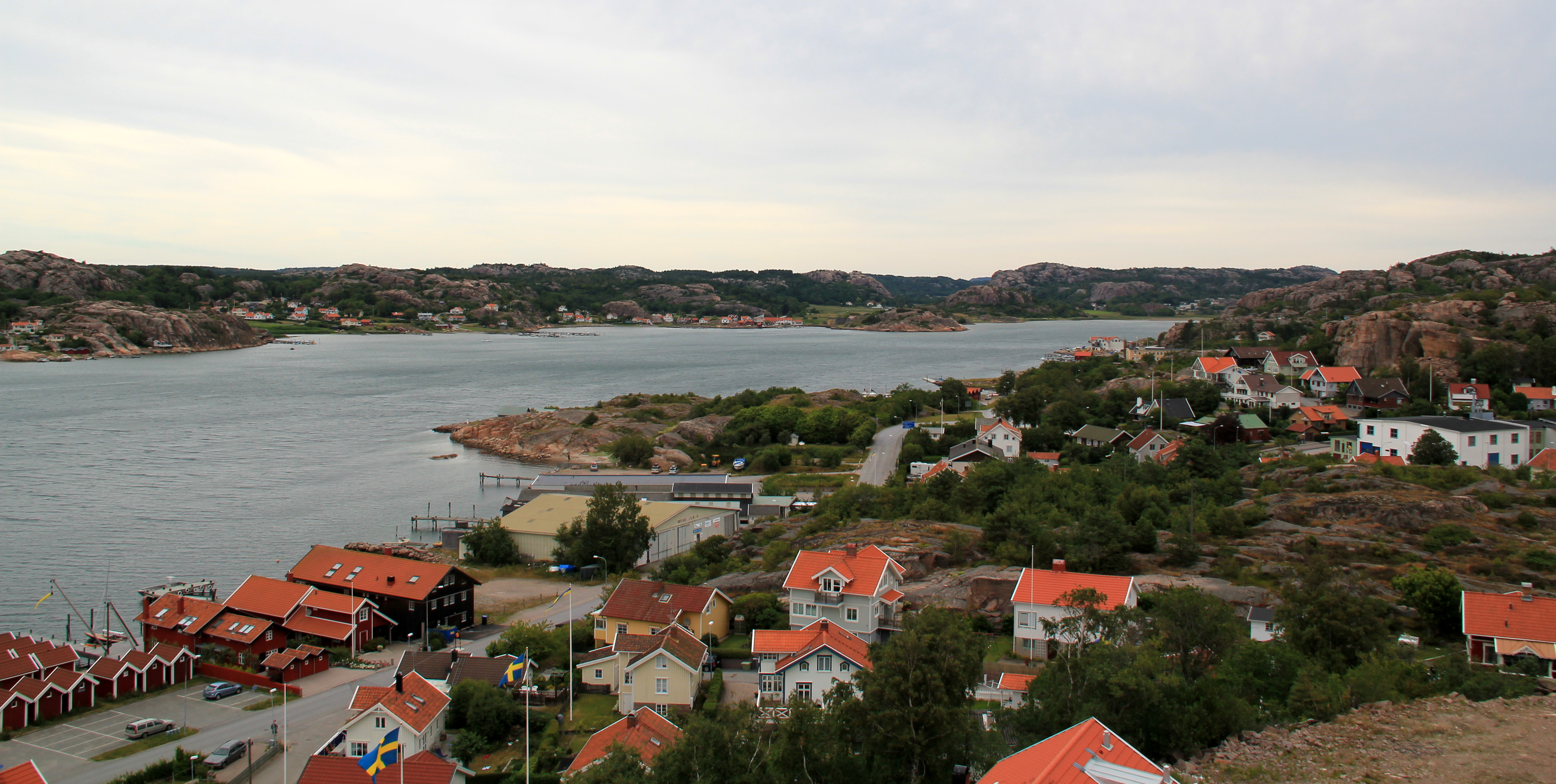 Bottnafjorden towards north, and Bovallstrand